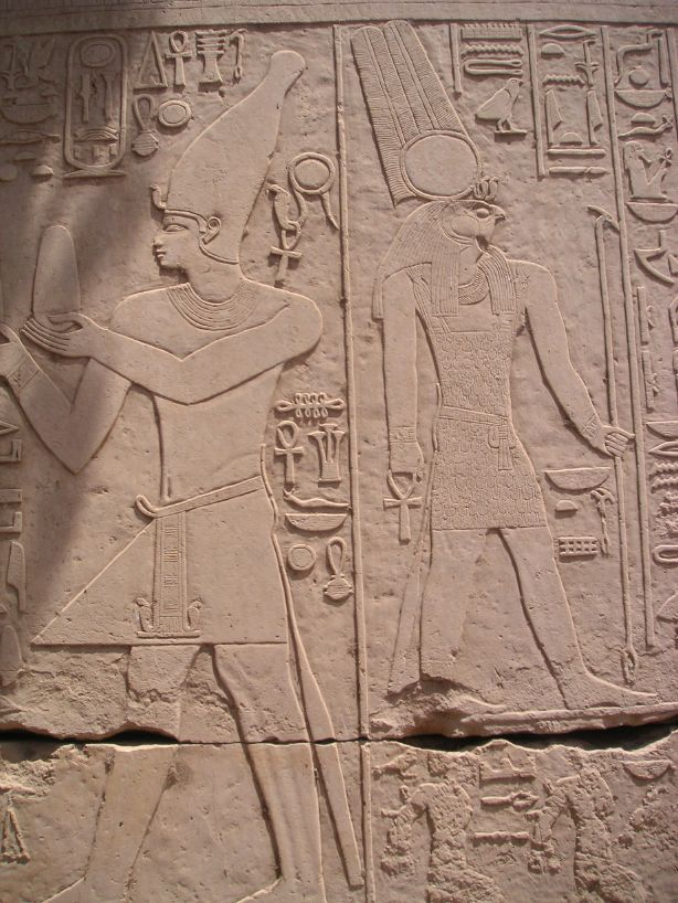 Low bas relief scenes-(mostly undamaged, high 'definition'), and Egyptian hieroglyphs. (Some prisoners are eroded away in lower-right, identified by "tribes"/location with hieroglyphs.)